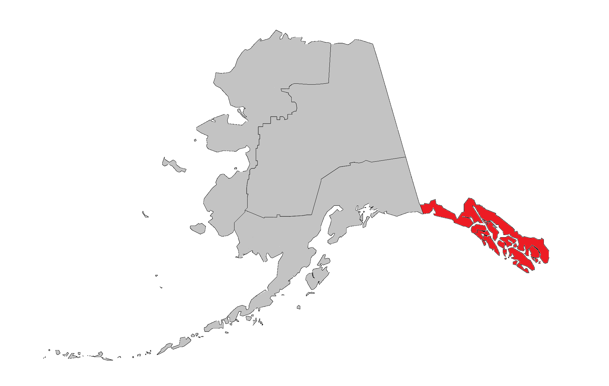 A map of the First Judicial District (also refered to as Division #1) in red. Based on "Map of boroughs and census areas" av cmrivers.